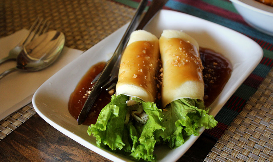 2013 Angeles Philippines Trip Day 5 - Lumpiang Ubod